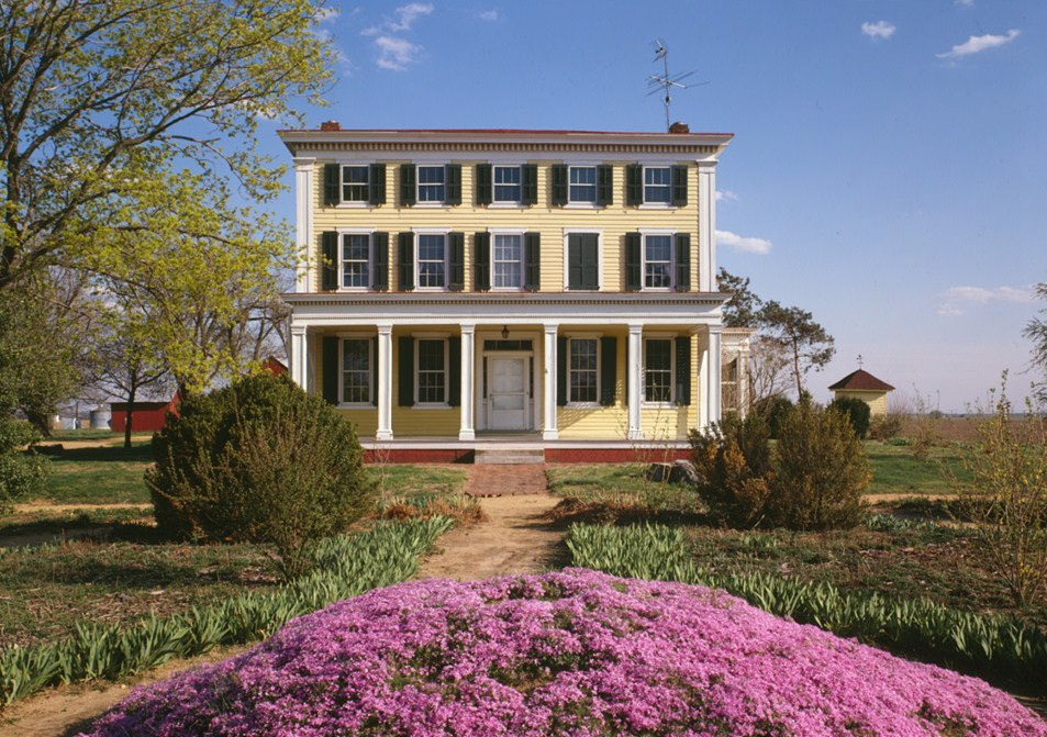 Hedgelawn, U.S. Route 301, Middletown vicinity (New Castle County, Delaware) cropped This file comes from the Historic American Buildings Survey (HABS), Historic American Engineering Record (HAER) or Historic American Landscapes Survey (HALS). These are programs of the National Park Service established for the purpose of documenting historic places. Records consist of measured drawings, archival photographs, and written reports. When reusing please credit: Library of Congress, Prints & Photographs Division, DEL-189-12 This tag does not indicate the copyright status of the attached work. A normal copyright tag is still required. See Commons:Licensing. This work is in the public domain in the United States because it is a work prepared by an officer or employee of the United States Government as part of that person’s official duties under the terms of Title 17, Chapter 1, Section 105 of the US Code. Note: This only applies to original works of the Federal Government and not to the work of any individual U.S. state, territory, commonwealth, county, municipality, or any other subdivision. This template also does not apply to postage stamp designs published by the United States Postal Service since 1978. (See § 313.6(C)(1) of Compendium of U.S. Copyright Office Practices). It also does not apply to certain US coins; see The US Mint Terms of Use. This file has been identified as being free of known restrictions under copyright law, including all related and neighboring rights. Object location39° 26′ 28″ N, 75° 44′ 31″ W